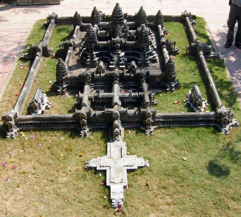 Model by Dy Proeung, in Siem Reap, Cambodia, of Angkor Wat central structure.